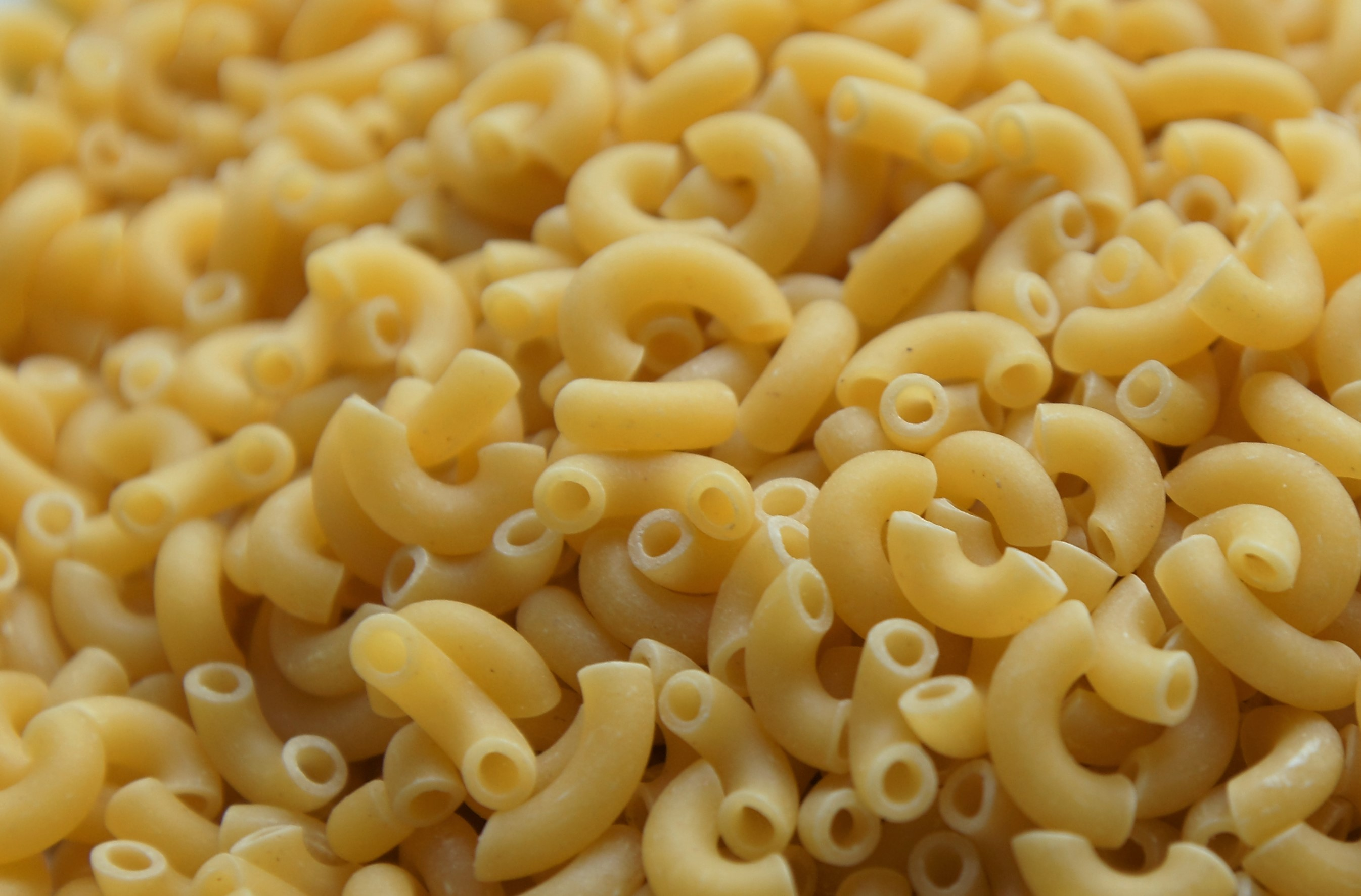 closeup view of macaroni pasta